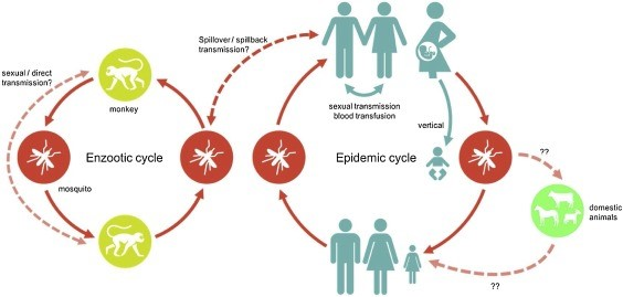 Zika virus is primarily acquired and transmitted in humans through mosquito vectors (red arrows). Once infected, humans can pass infection to other humans, either vertically, sexually, or through contaminated blood (teal arrows), or by providing an infected bloodmeal to competent mosquitoes (red arrow). Spillover transmission occurs when a competent mosquito acquires infection from a sylvatic source (reservoir) and transmits the infection to a human, whereas spillback transmission would occur if a competent mosquito acquires infection from a human and transmits it back to a competent wild host (red dashed arrows). Additional unconfirmed routes of transmission include sexual transmission among sylvatic hosts (pink dashed arrow, left), and vector-borne transmission to and from domesticated mammals (pink dashed arrows, right)